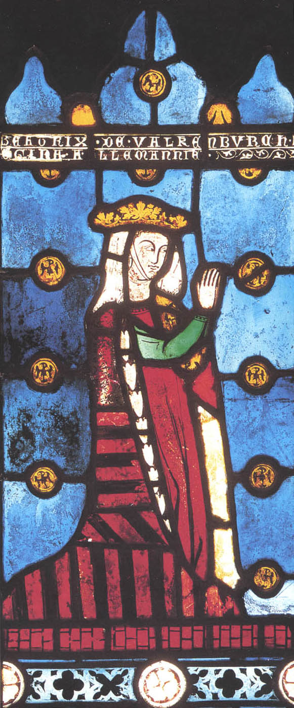 Medieval English stained glass window in the Burrell Collection, depicting Beatrice of Falkenburg, daughter of Dietrich I, Count of Falkenburg, of Valkenburg Castle in the Netherlands. In scribed: Beatrix de Valkenburgh ... Allemannia. She was the third wife of Richard of Cornwall (1209-1272), Earl of Cornwall and King of Germany (from 1257), second son of King John of England.